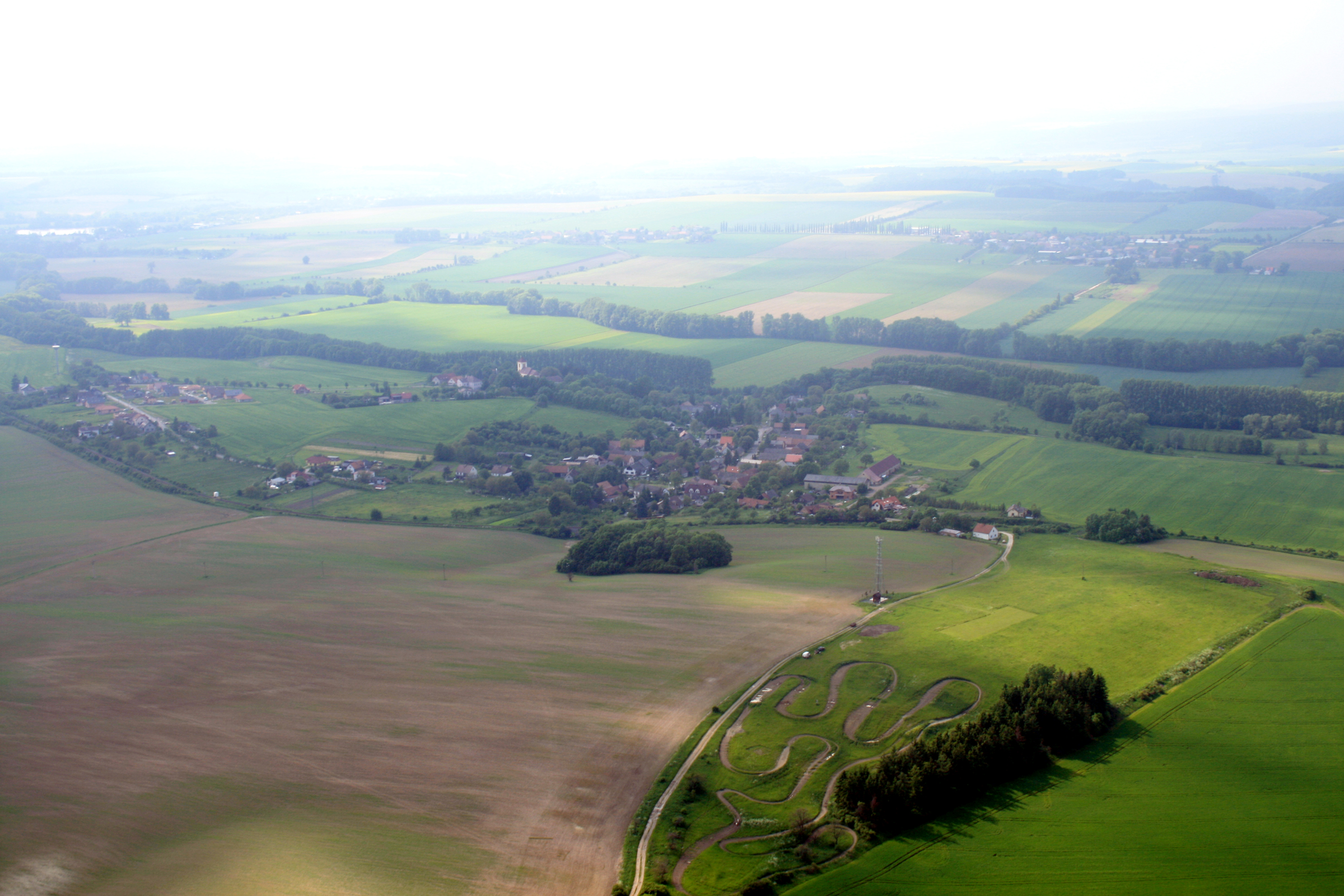 Village Zvole, part of Rychnovek from air, eastern Bohemia, Czech Republic